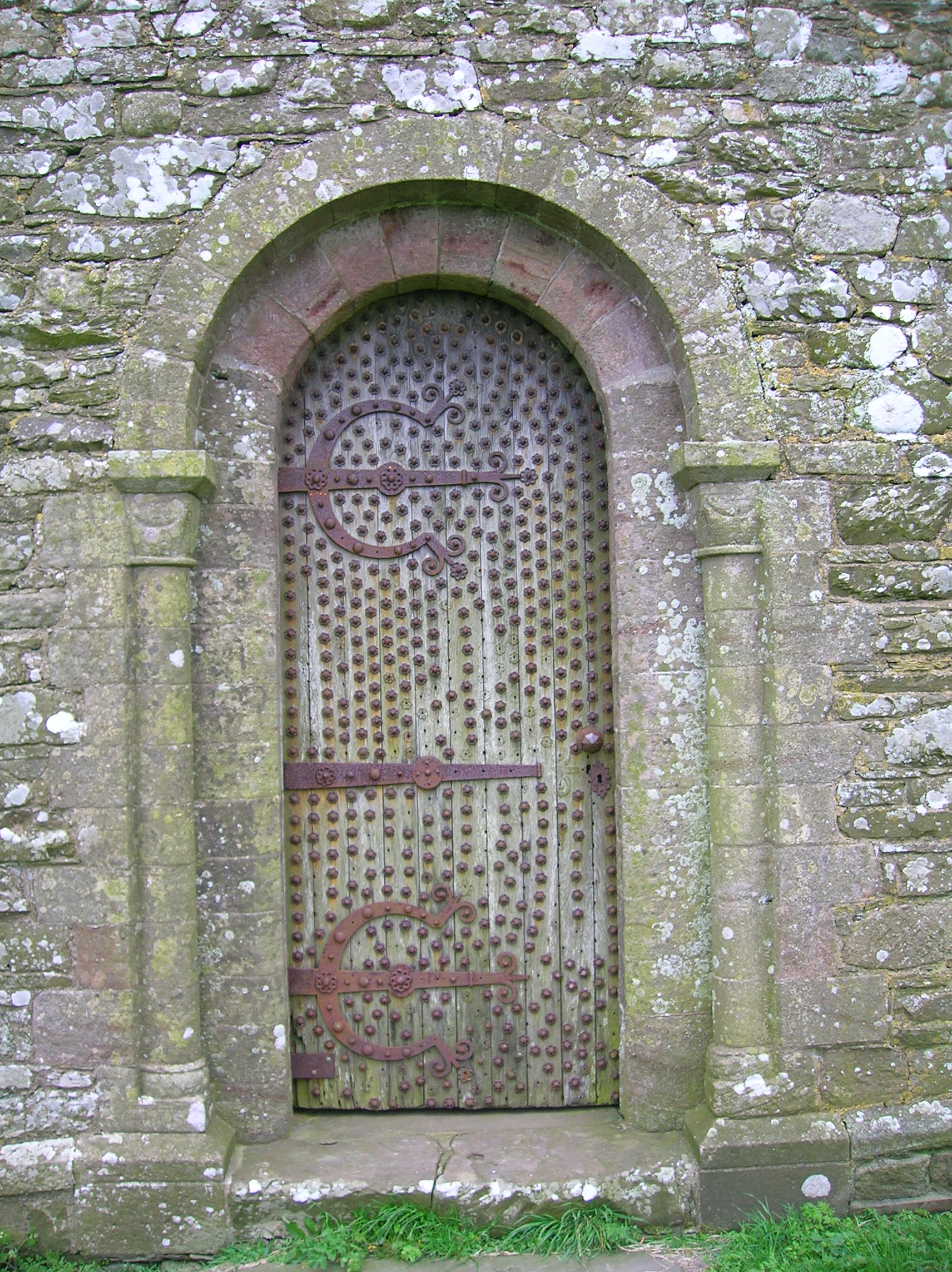 Cruggleton Church, The Machars, Dumfries & Galloway, Scotland.